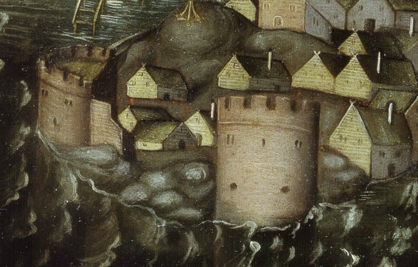 Detail from Vädersolstavlan showing the medieval towers on Riddarholmen, including Birger Jarls torn.